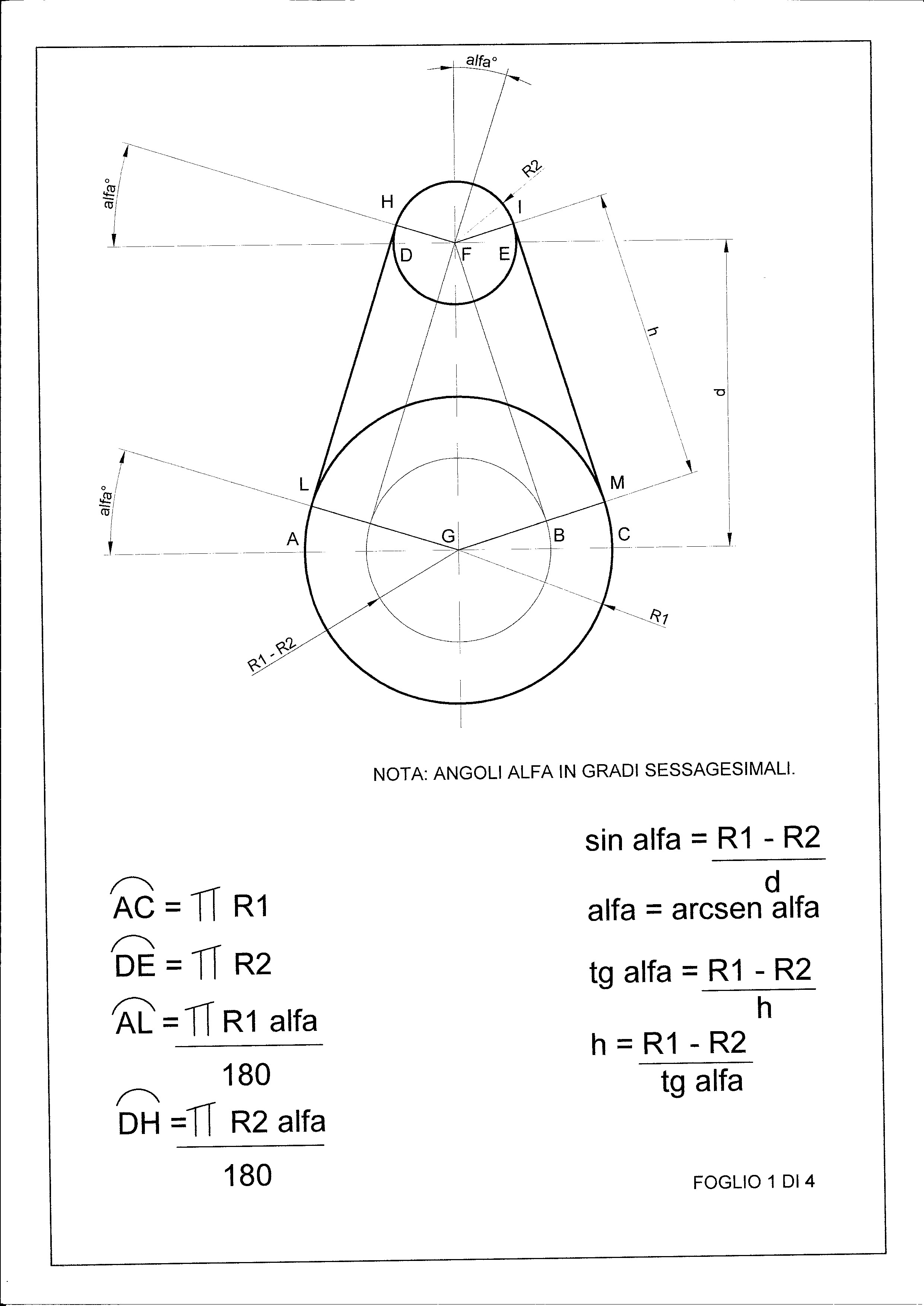 Calcolo sviluppo cinghia 1